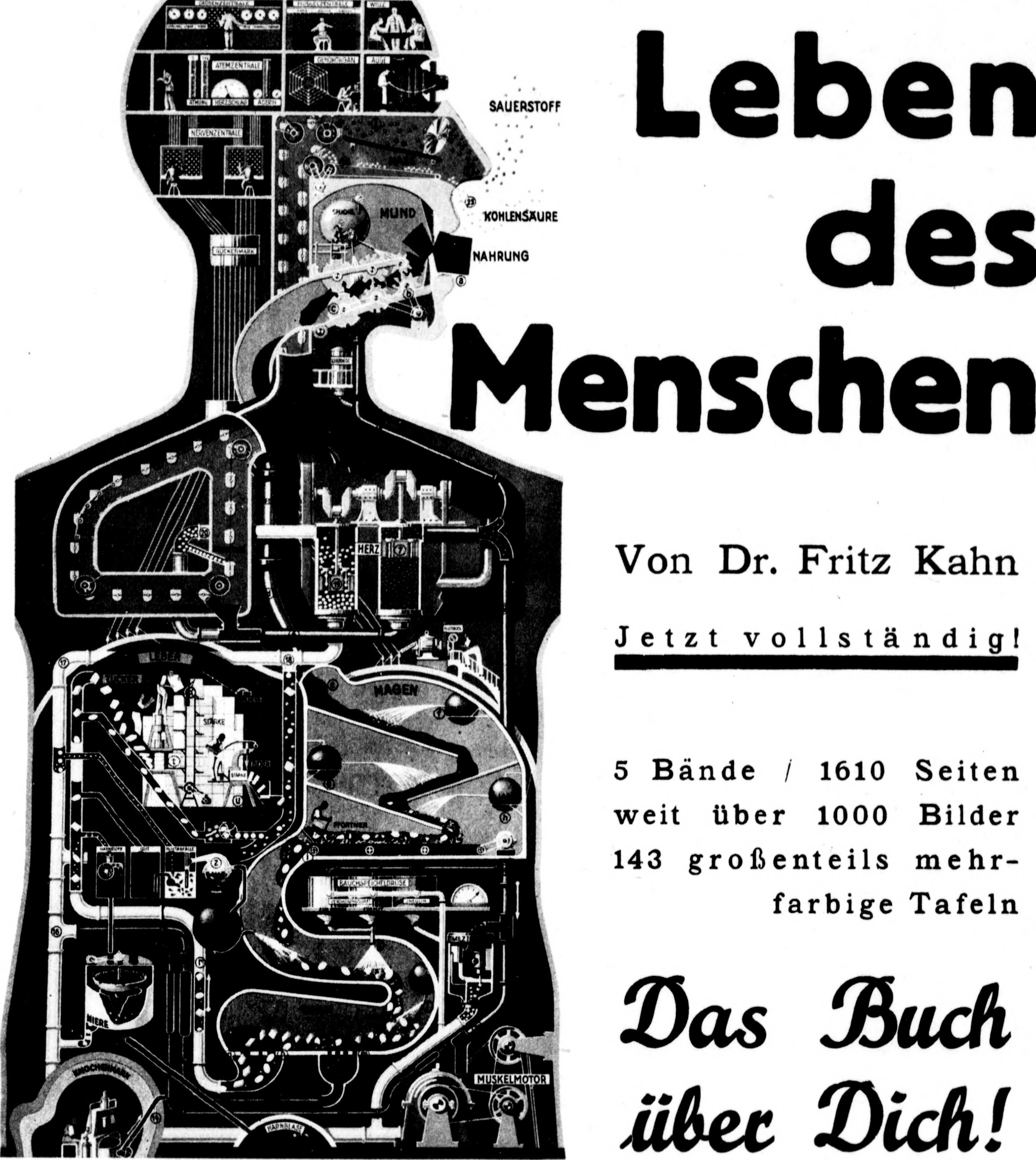 Title: Arthur and Fritz Kahn Collection 1889-1932 Year: [1] (s) Authors: Kahn, Arthur and Fritz Subjects: Kahn, Fritz 1888-1968; Kahn, Arthur David 1850-1928; Natural history illustrators; Natural history Publisher: Text Appearing Before Image: tine deutscÜe £dsUmq. jwm Tüeltqetiuna * • SAUERSTOFF MUNO 1 KOHIINSäURE Text Appearing After Image: '